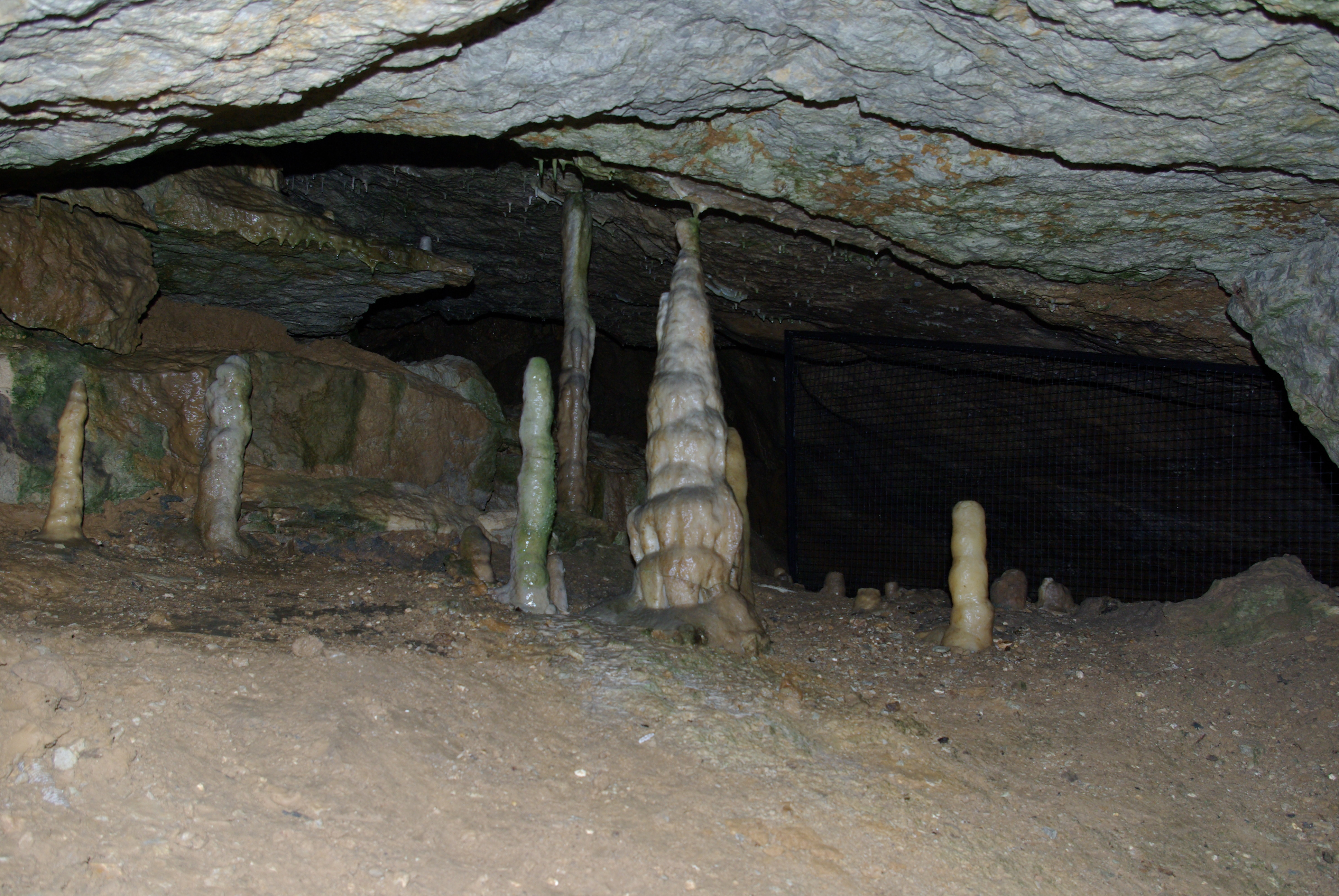 Devil's Cave (near Pottenstein)